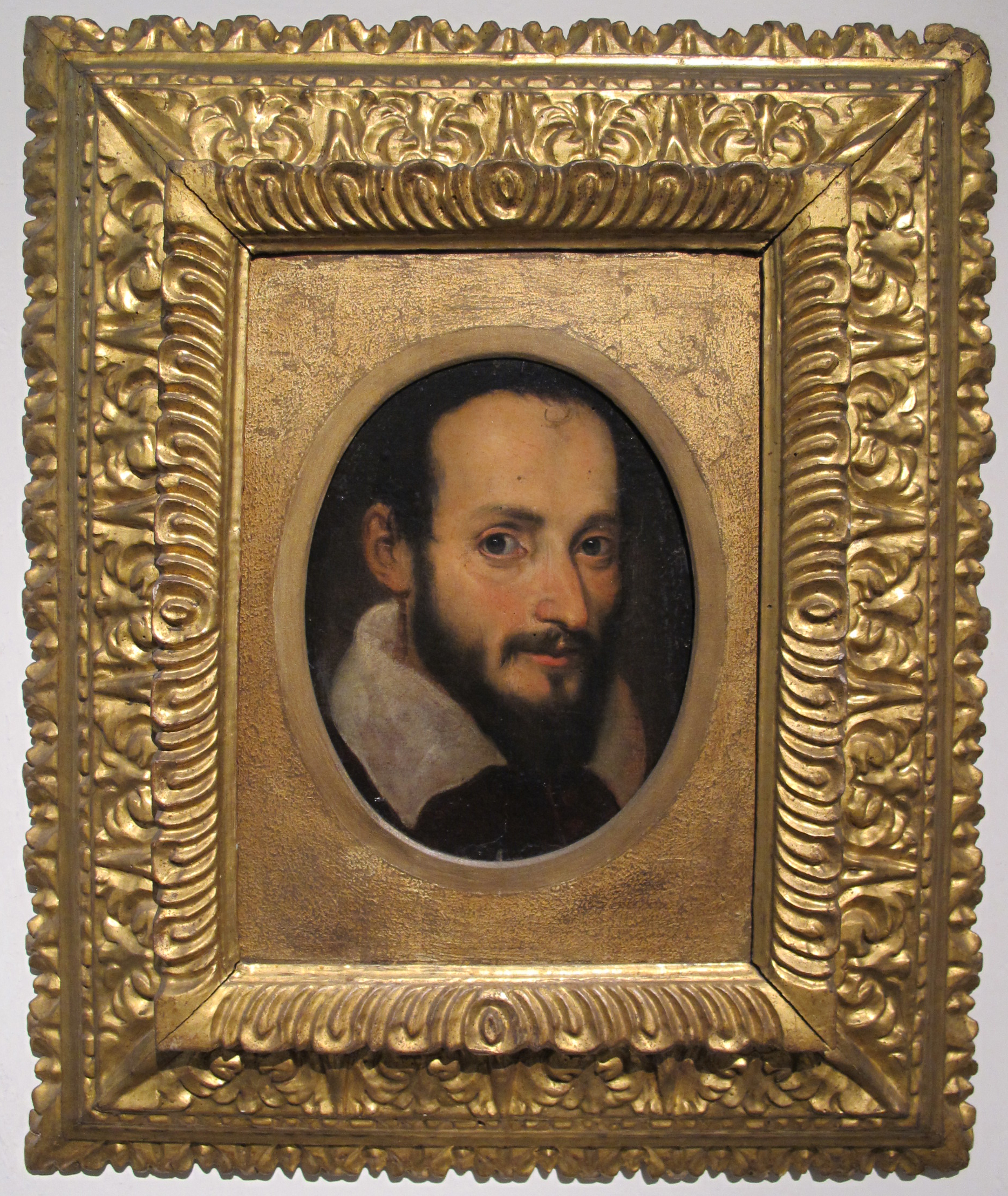 Painting in the National Pinacotheque, Siena